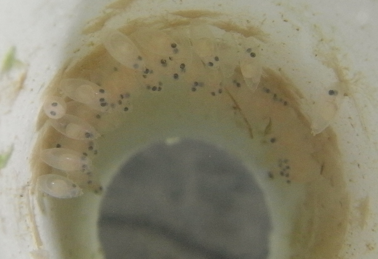 7-day old Chlamydogobius eremius eggs on the inside of a 3/4" PVC tube.